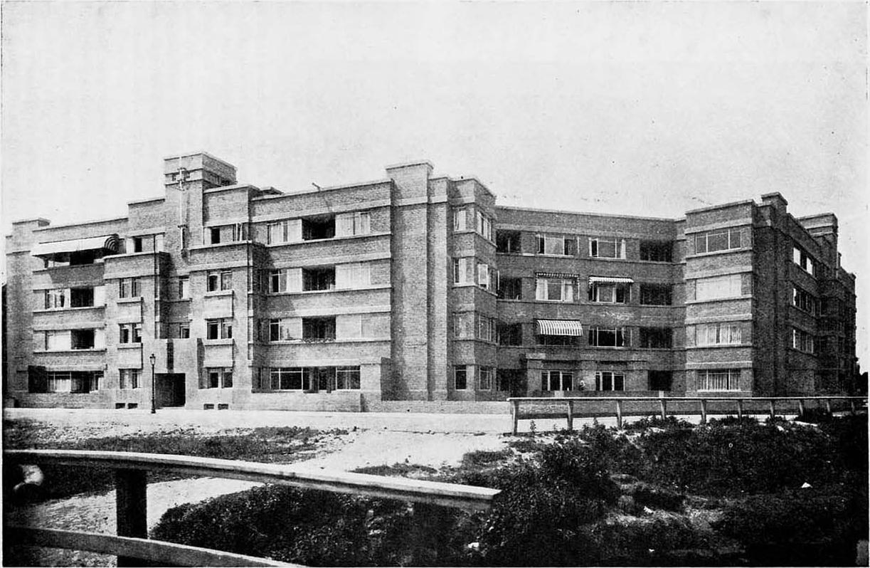 W. Verschoor (architect). Huize Boszicht, Benoordenhoutseweg, The Hague. 1918-1920 (construction).